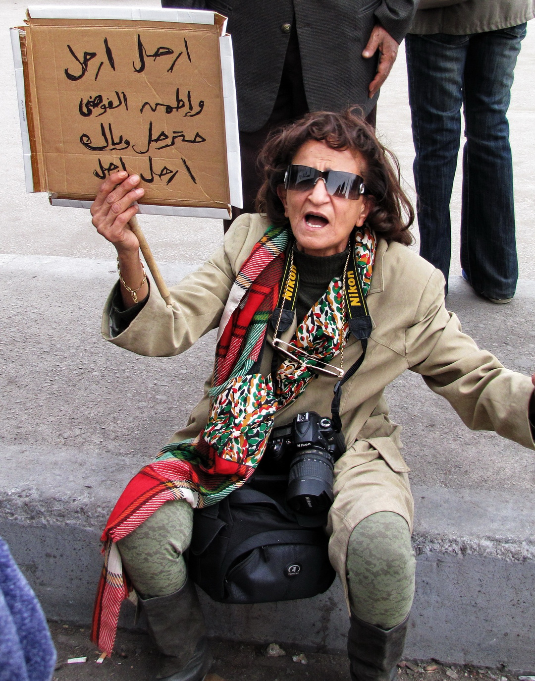 A particularly animated protester in Tahrir Square with her Nikon D90 and a cigarette in her right hand (not shown), during the Egyptian Revolution of 2011. The placard reads "Leave leave and rest assured, the chaos will leave with you, leave leave."